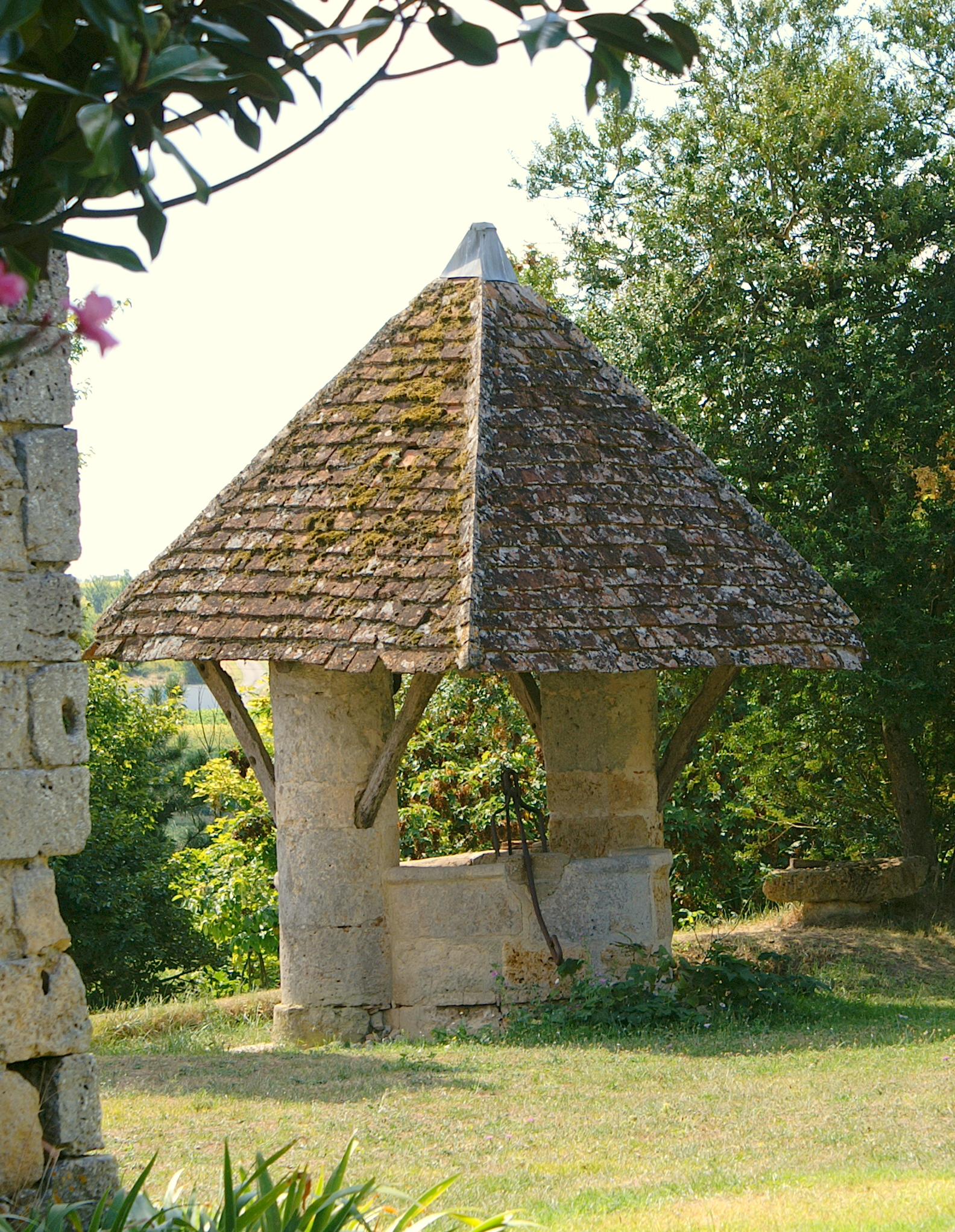 Traditional stone well with a roof.